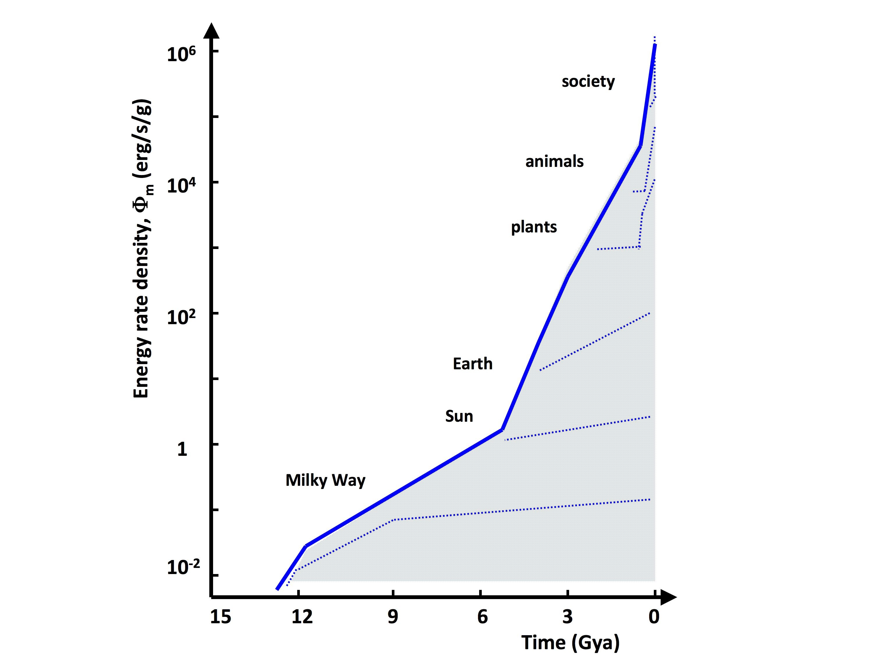 Plot of energy rate density versus time since the big bang for our galaxy, sun, earth, plants, animals, society